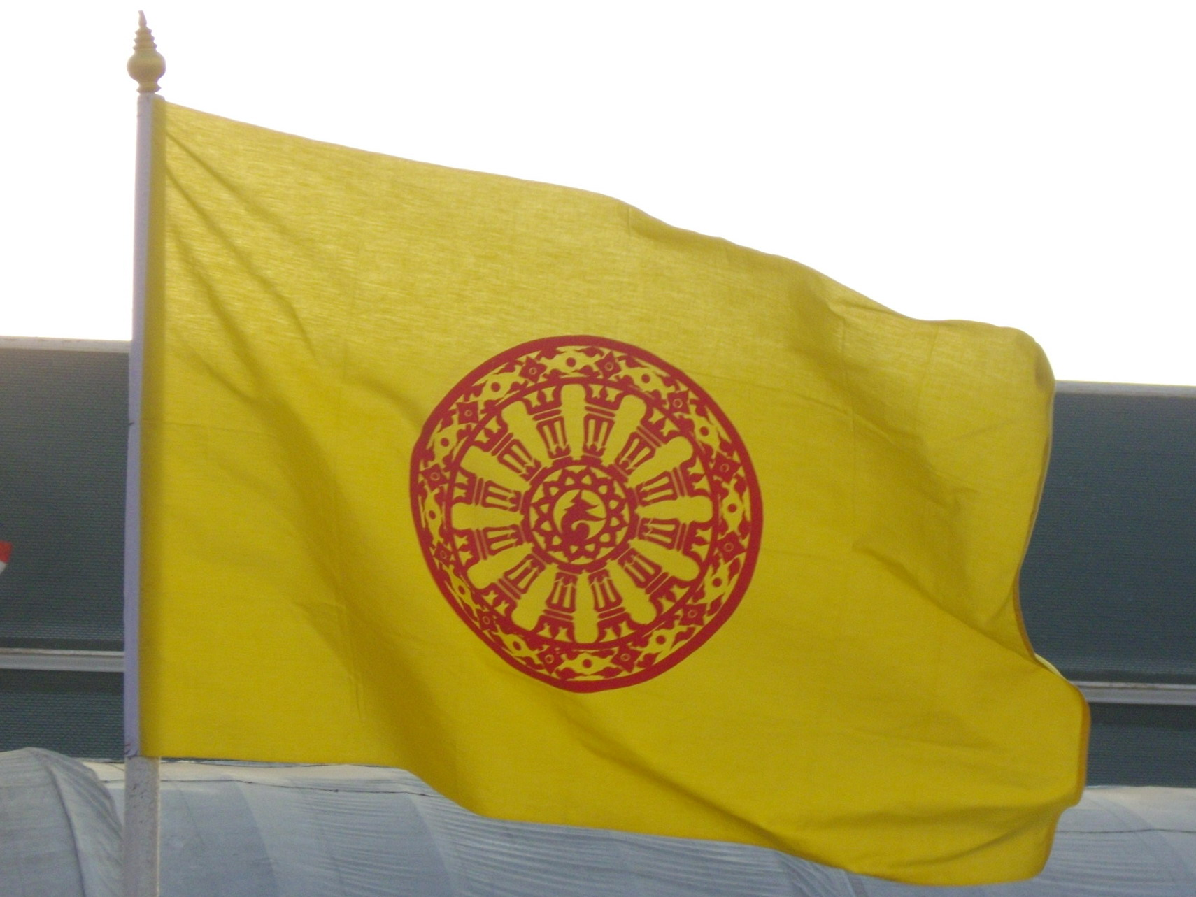 "The Dhammachak Flag", a Buddhist flag which is used widely in Thailand. This picture was taken in Vesak Day 2009 at 8 May 2009, Sanam Luang, Bangkok, Thailand.